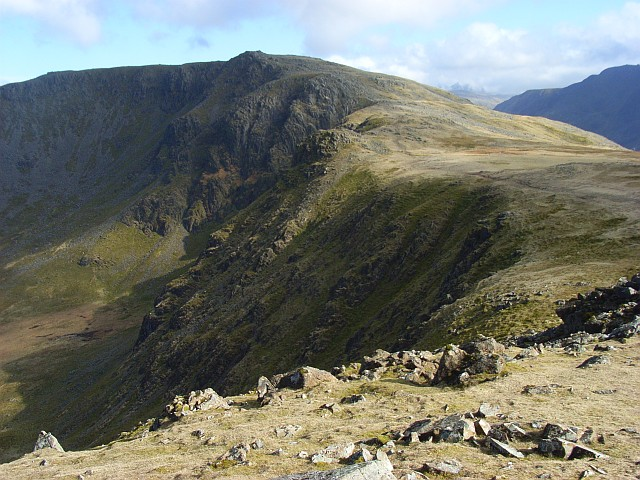 High Stile from Red Pike Looking along the top of Chapel Crags.